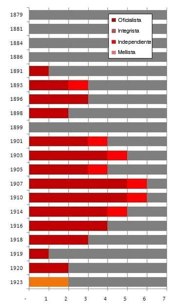 graph showing number of Carlist deputies elected from Navarre to Cortes Generales during the Restauration period (spanish text)